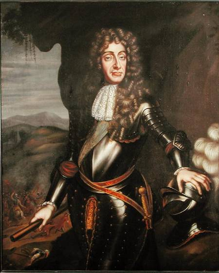 Portrait of James II of England.